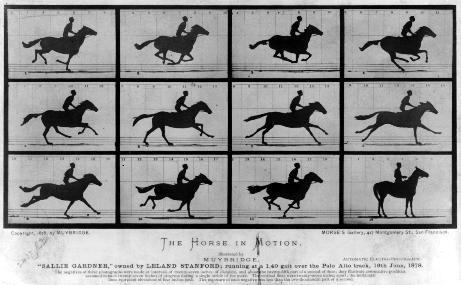 The Horse in Motion by Eadweard Muybridge. Noted photographer, Eadweard Muybridge was hired, in 1872, by Leland Stanford a railroad baron and future university founder, to find out if there was moment mid-stride where horses had all hooves off the ground.[1] It took several years but Muybridge delivered having captured a horse, named "Sallie Gardner," owned by Stanford; running at a 1:40 gait over the Palo Alto track, on 19th June 1878.[1] Muybridge used a dozen cameras all triggered one after another with a set of strings. [1]